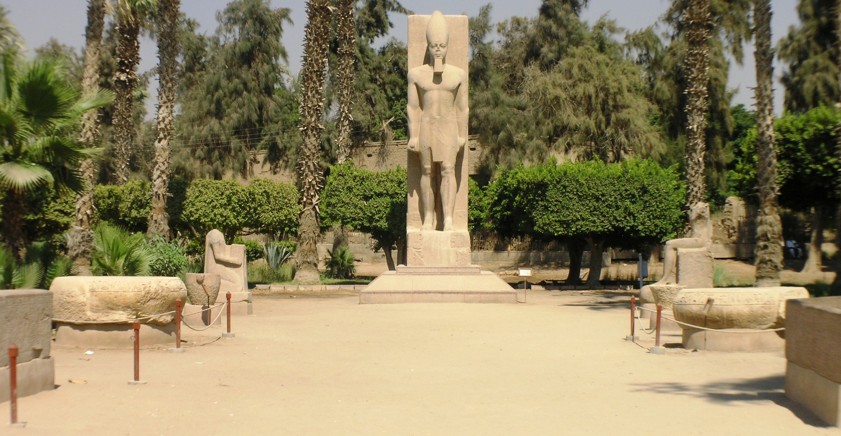 Memphis - Museum - back courtyard